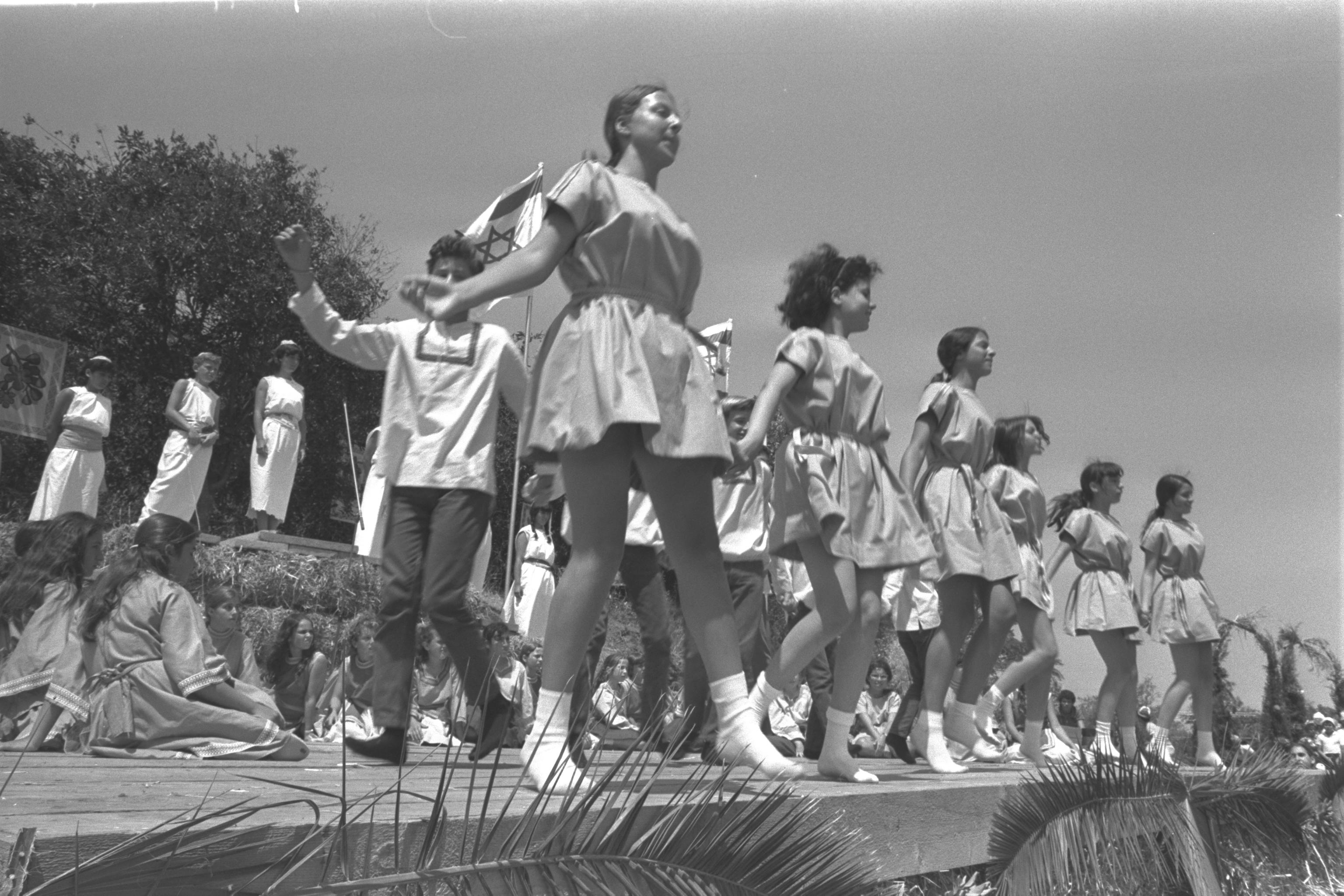 Students perform in a Bikurim pageant during Shavuot at the Talmei Aviv Educational Farm, near Ramat Gan.